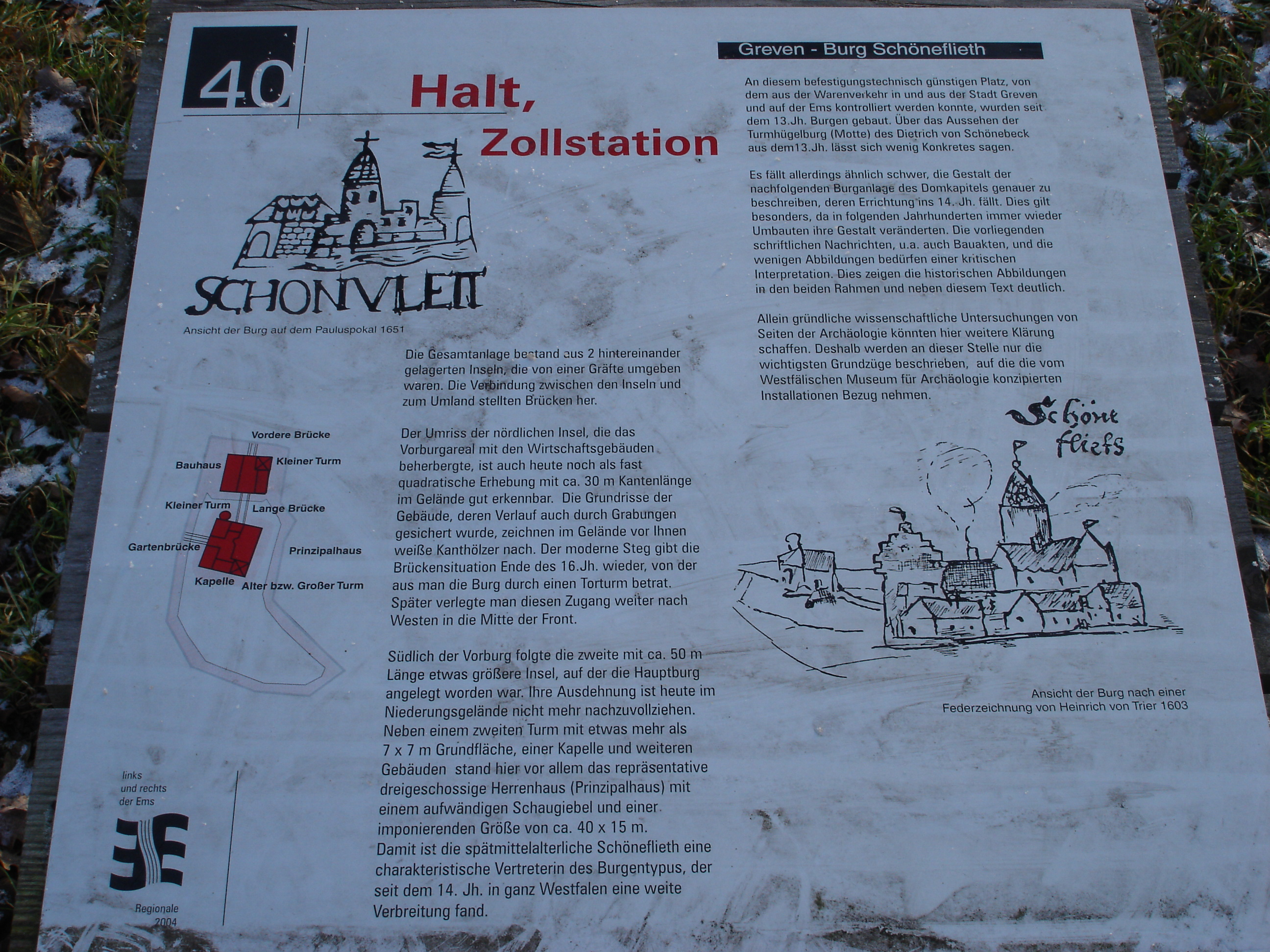 Infotable showing the layout and the architecture of Burg Schöneflieth in Greven, Westphalia, Germany